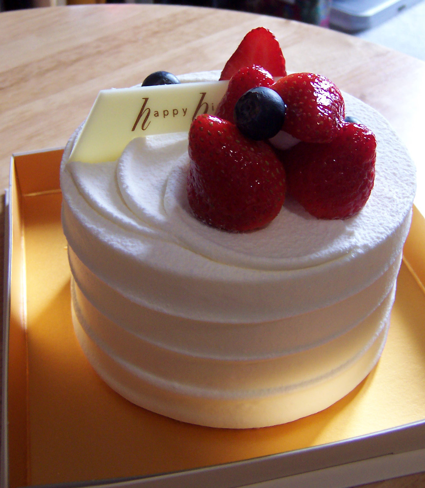 "The birthday cake that The Boyfriend brought over for me. Japan does some damn good cakes...."